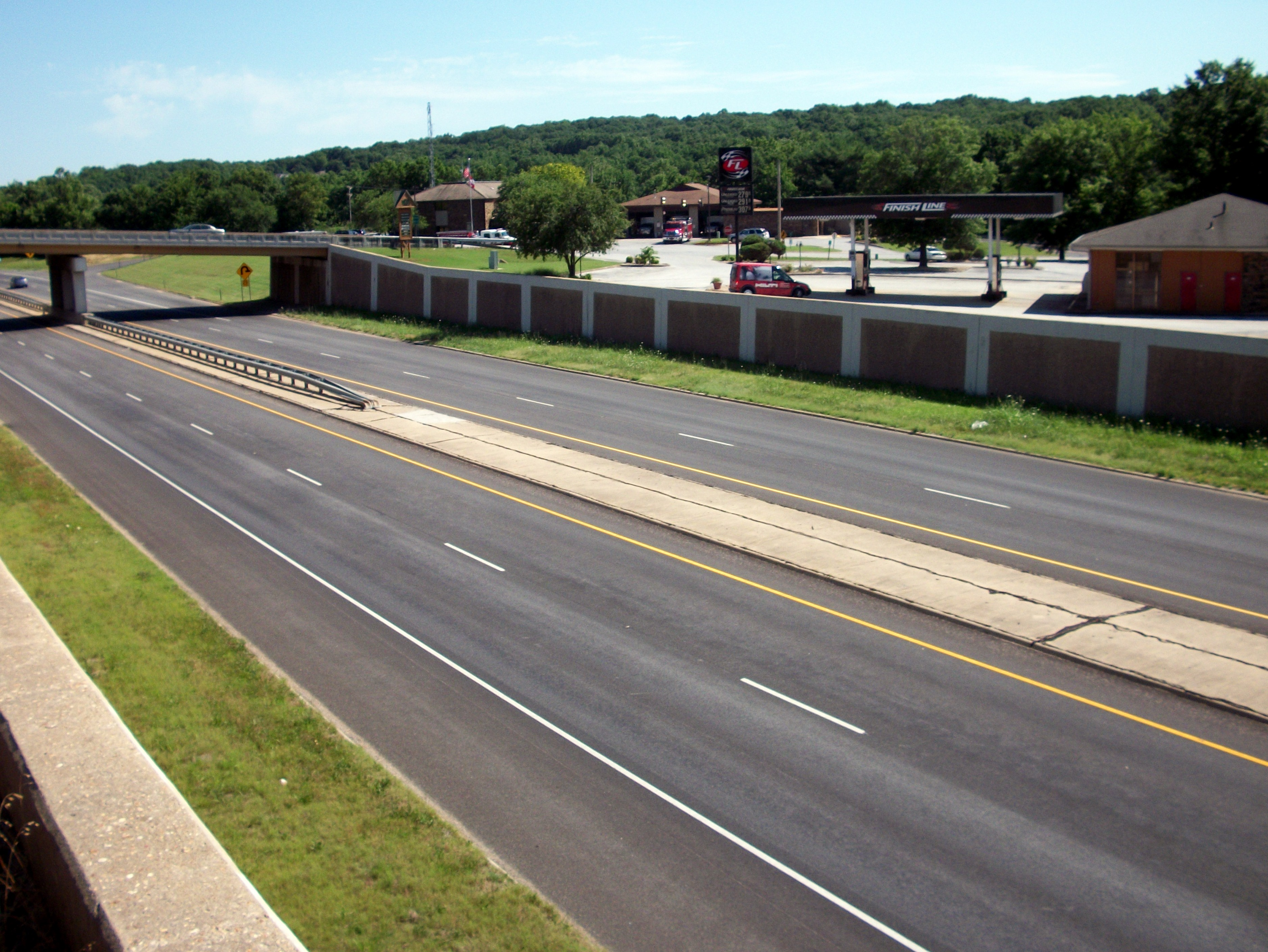 The newly-paved US 71 runs in Bella Vista, Arkansas. This photo is facing south, with the Highway 340 interchange in the background. Viewed from a retaining wall on the east side of the highway.